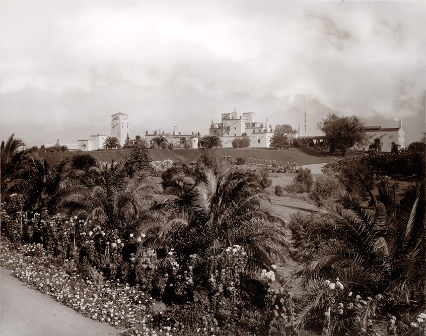 Exterior shot of Phoebe Hearst's mansion Hacienda del Pozo de Verona, circa 1900.